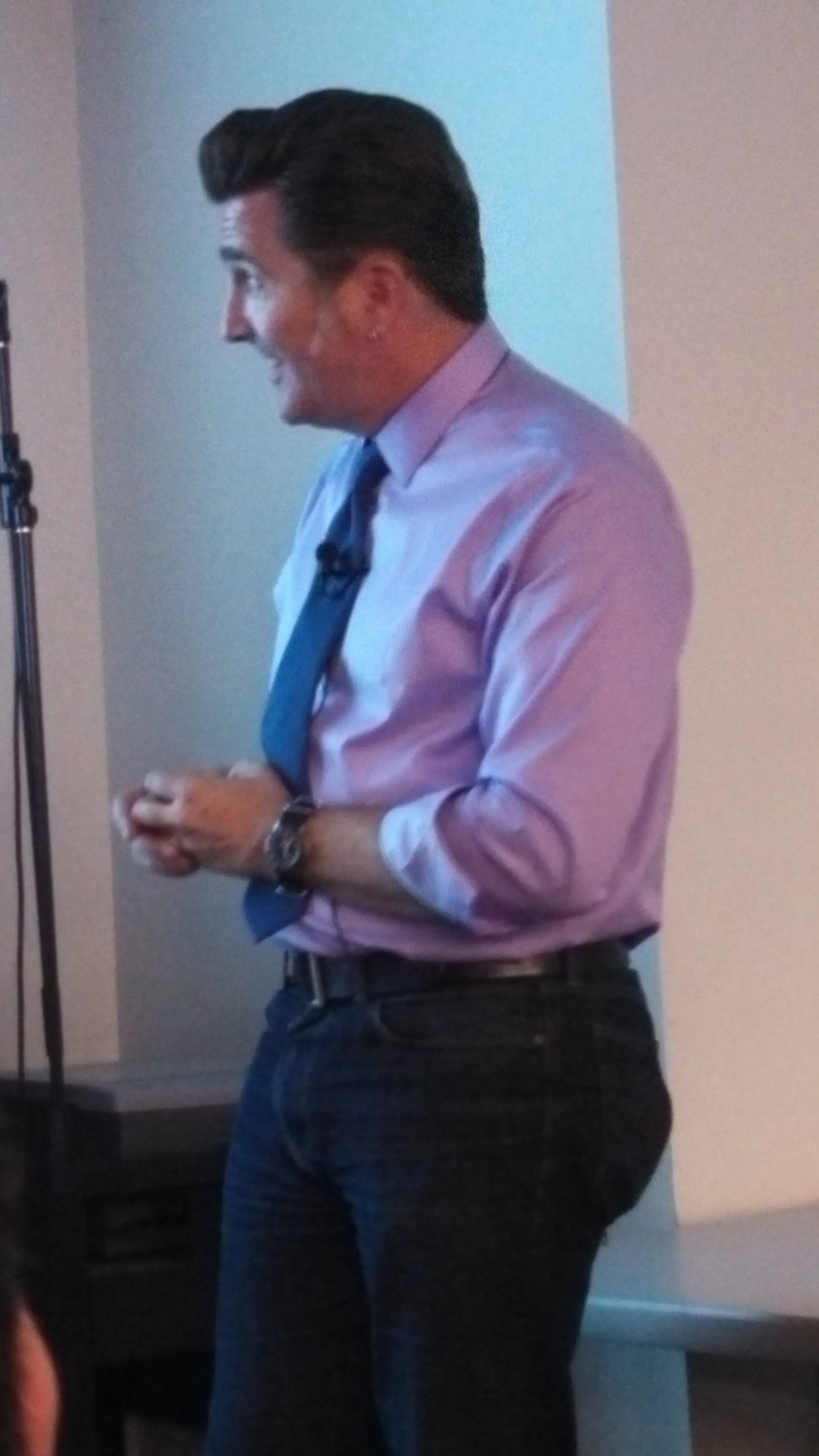 NASA engineer Adam Steltzner, speaking at UC Davis, May 21 2013